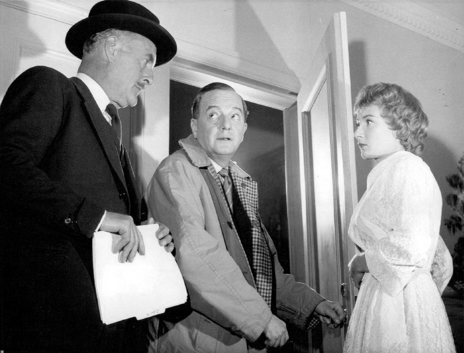 A scene from "Dial M for Murder" from the television program Hallmark Hall of Fame. Pictured from left: John Williams, Maurice Evans, who reprised his Broadway role in this television presentation, and Rosemary Harris.